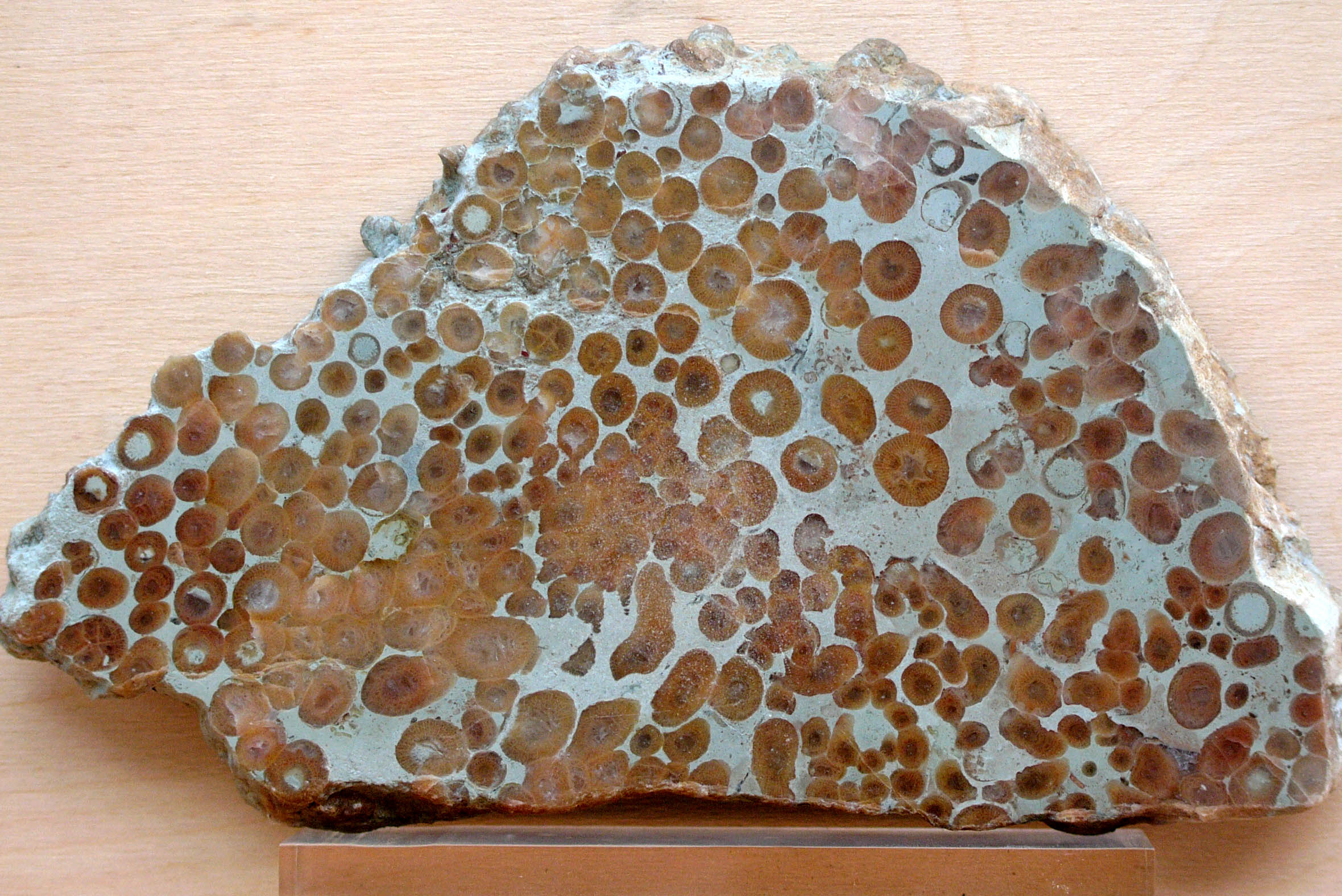 Silurian fossil coral from Gotland, Sweden